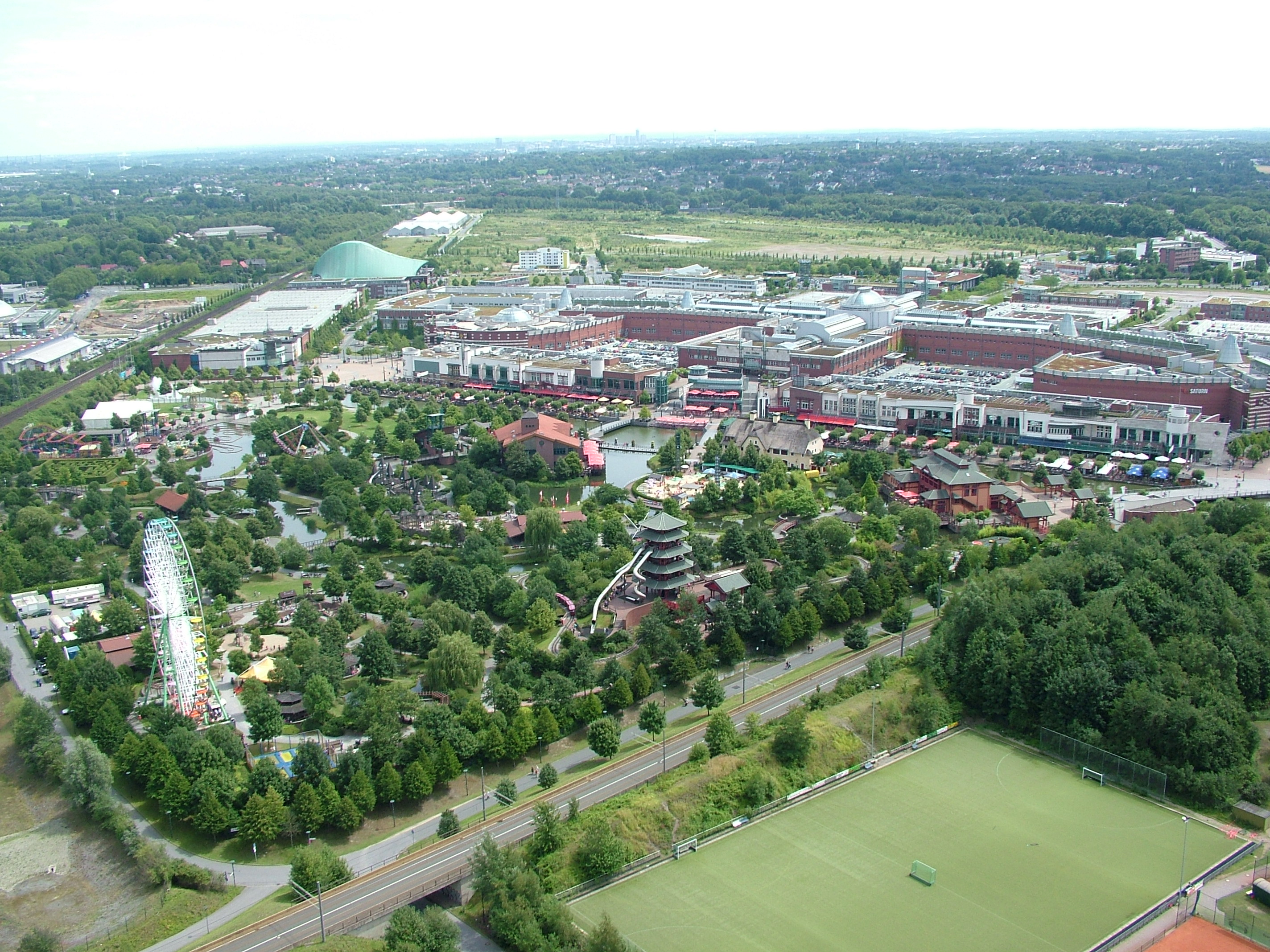 "Centro" mall in Oberhausen. With Legoland Discovery Centre in the foreground.